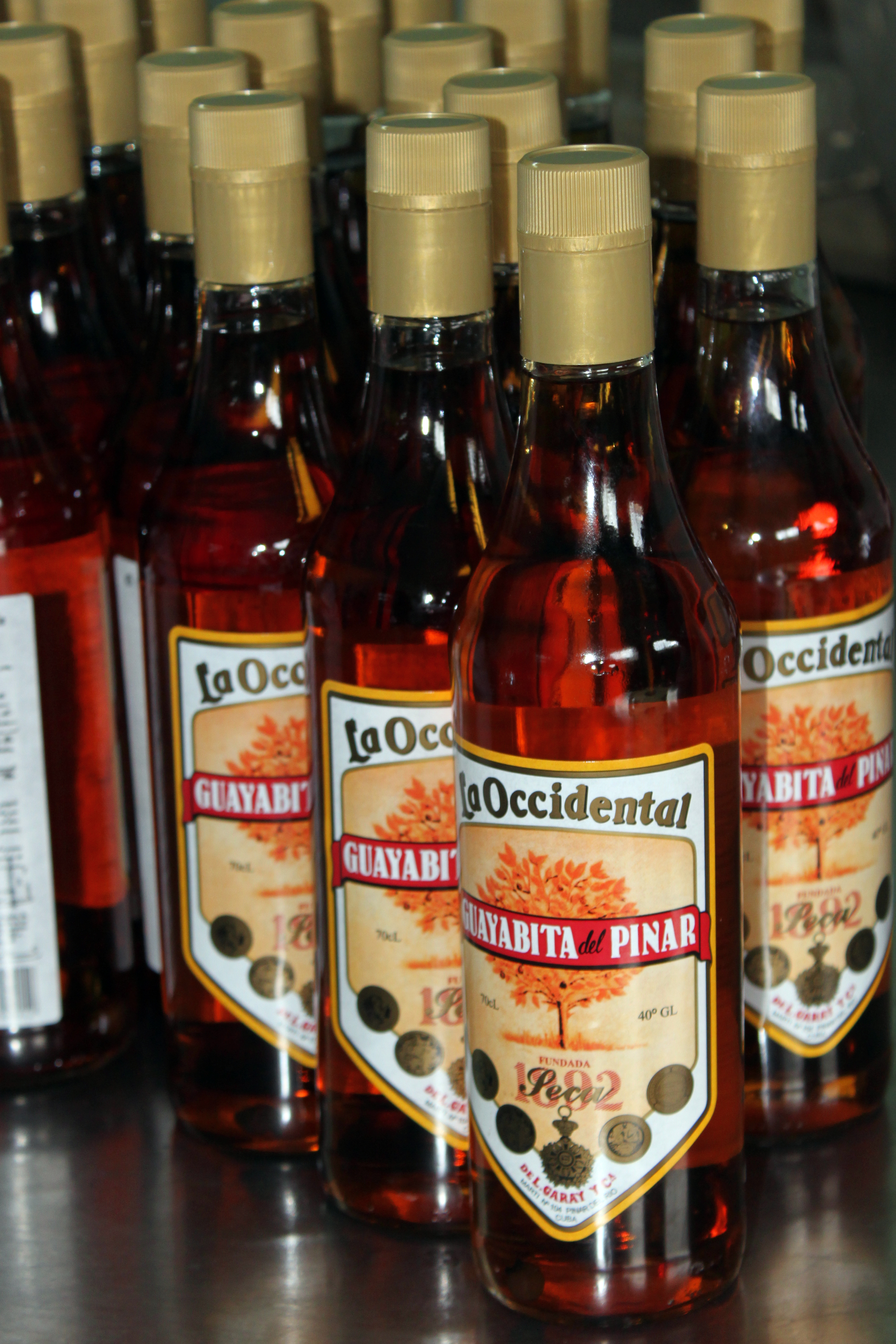 Beverage factory "Casa Garay", city and province of Pinar del Rio, Cuba